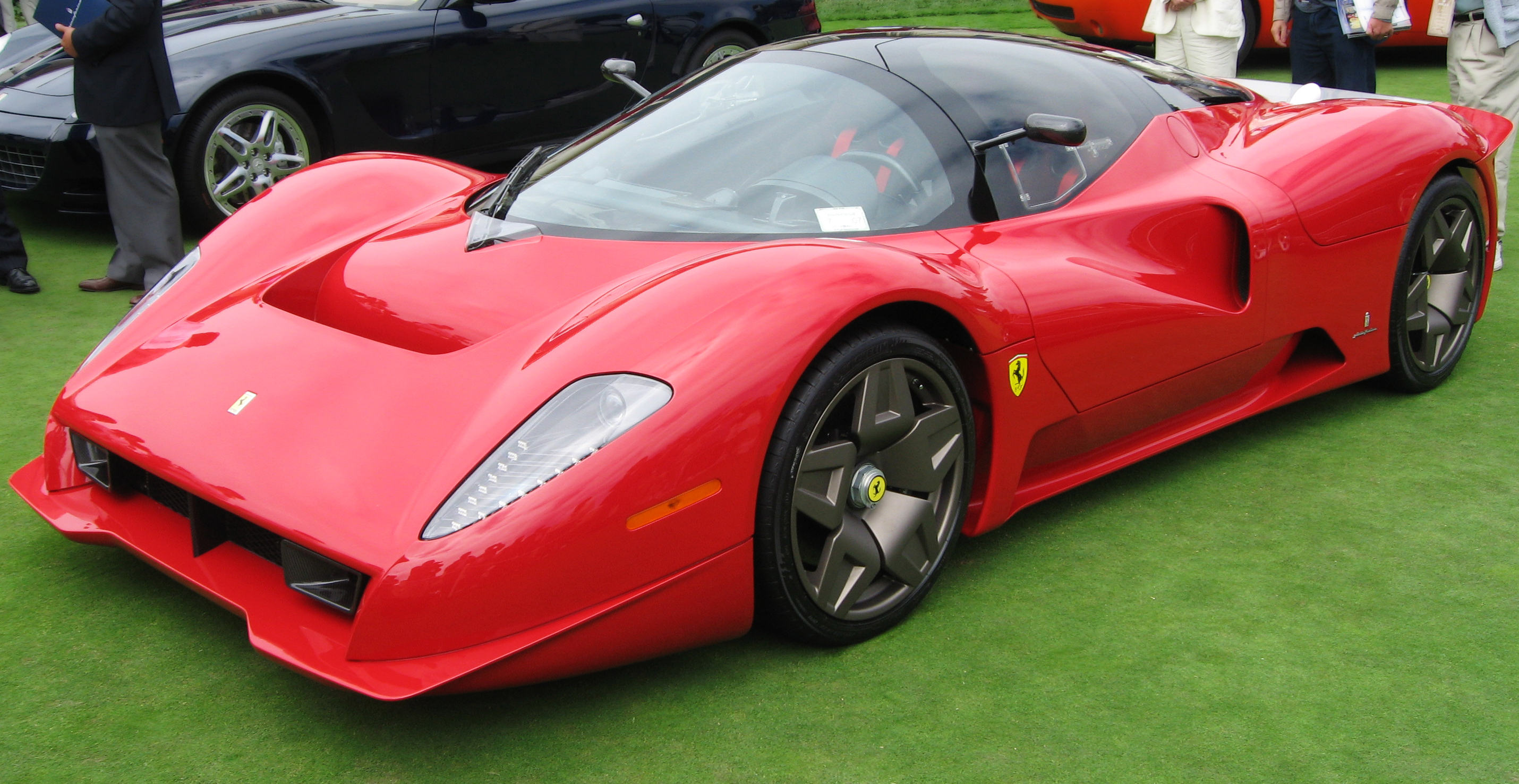 The Ferrari P4/5 at the Pebble Beach Concours d'Elegance motor show in 2006.